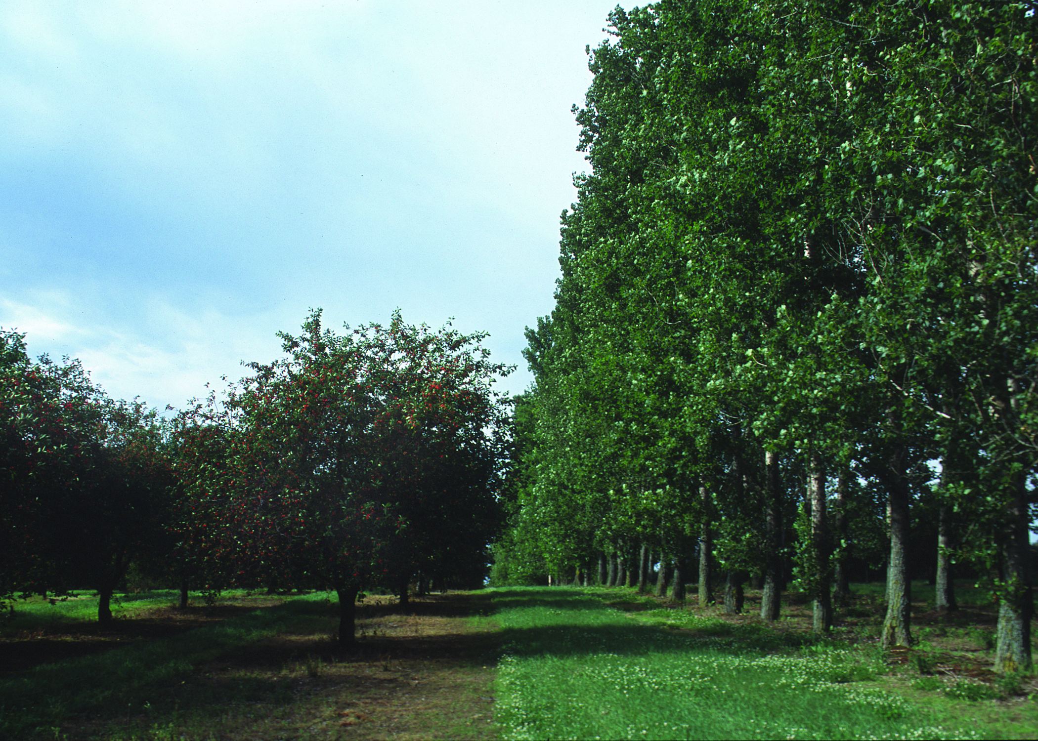 Poplar windbreak next to cherry orchard. VanBuren County, Michigan.